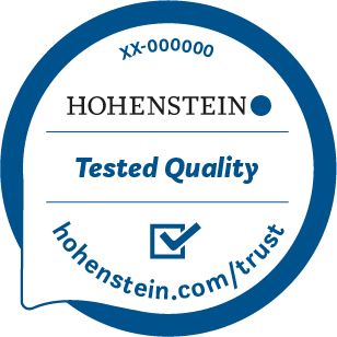 Hohenstein Quality Label